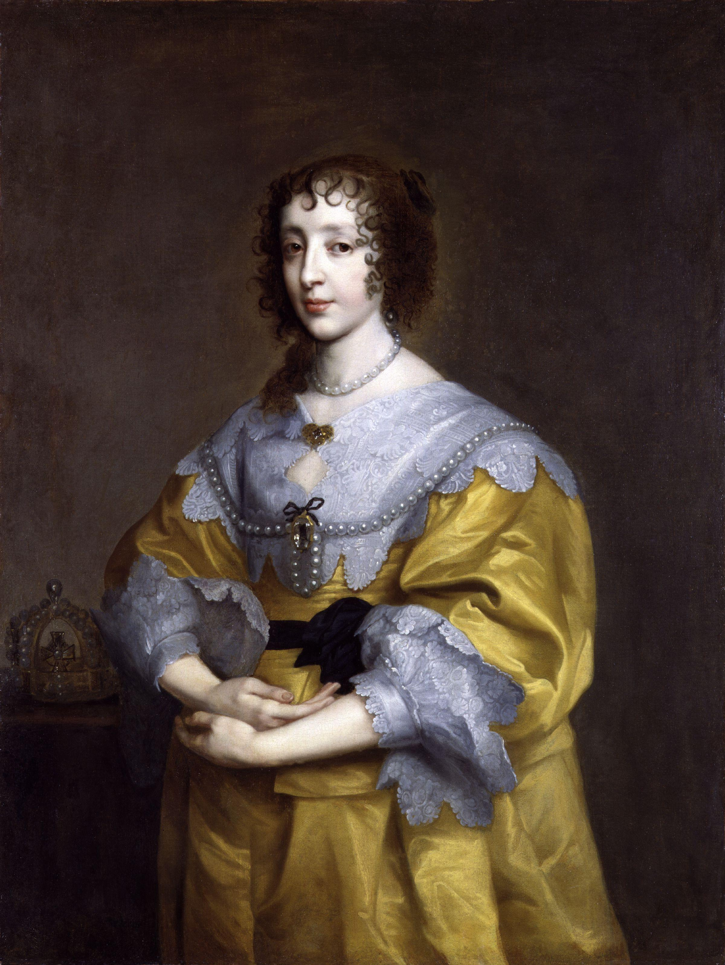 All images in this batch have been confirmed as author died before 1939 according to the official death date listed by the NPG.